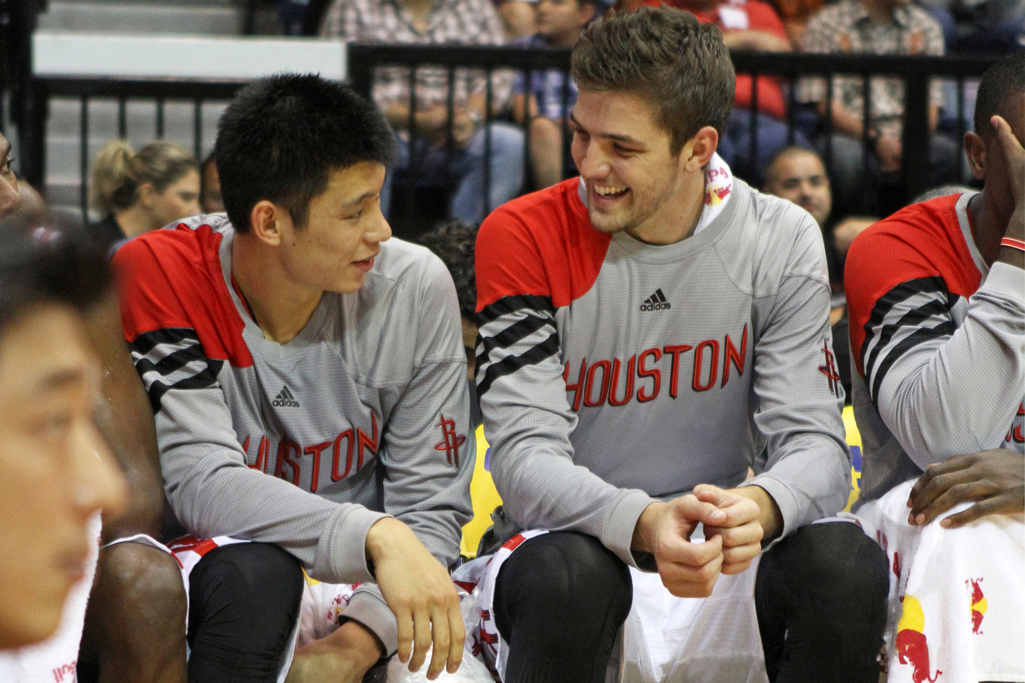 Jeremy Lin and Chandler Parsons